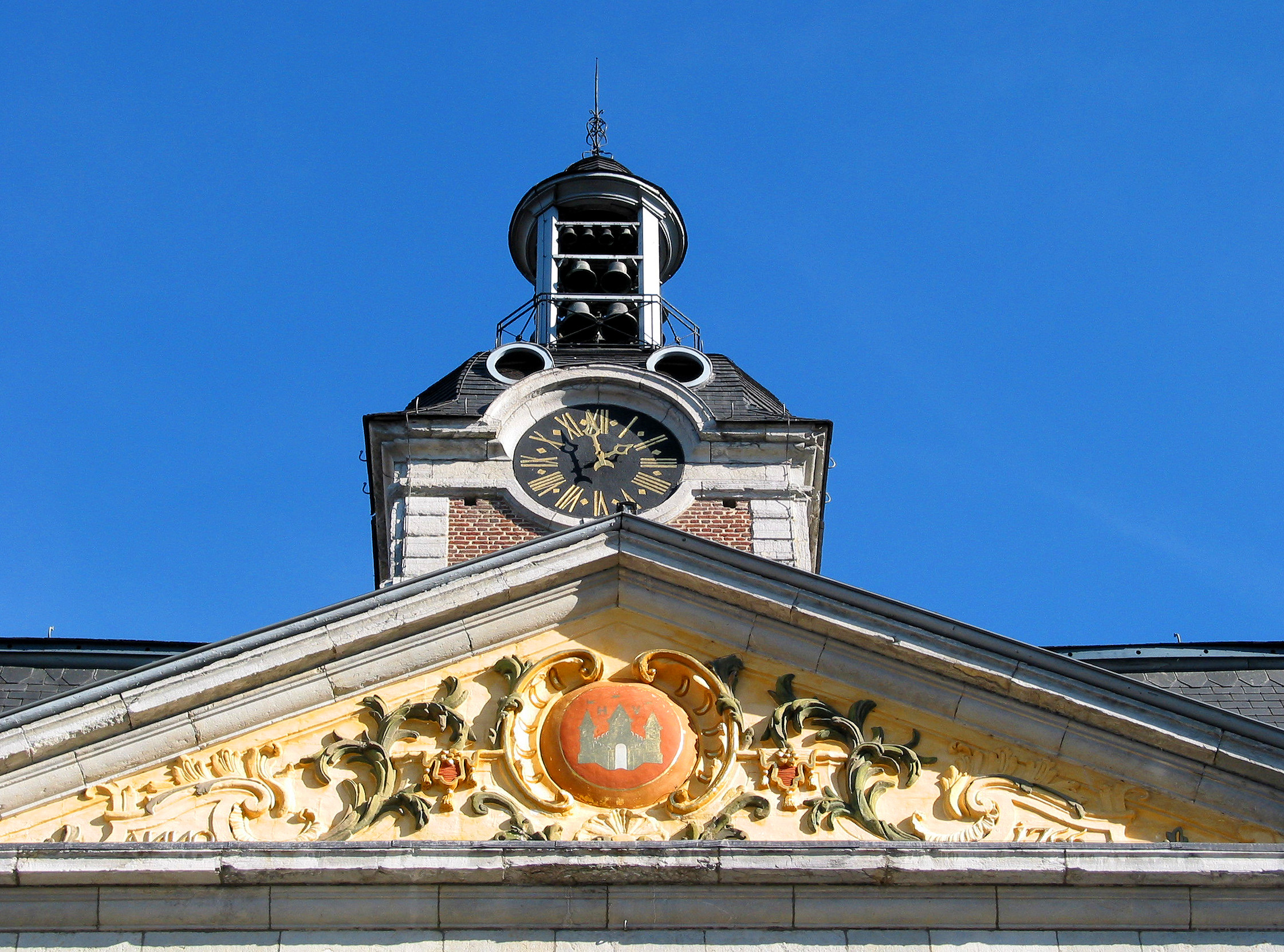 Huy (Belgium), bell tower, tower clock and emblazoned pediment of the the town hall (1766 - architect: Jean-Gilles Jacobs).